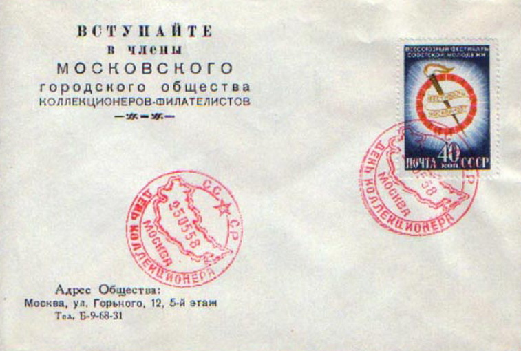 Cover of the Moscow City Society of Collectors and Philatelists, with а cachet "Day of the Collector" . Stamp of the Soviet Union, All-Union Festival of the Soviet Youth, CPA #1981, 1957